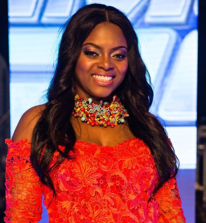 Esther Farinde at the Hackney Empire, October 2014 on winning Time 2 Shine Gospel Talent Search.